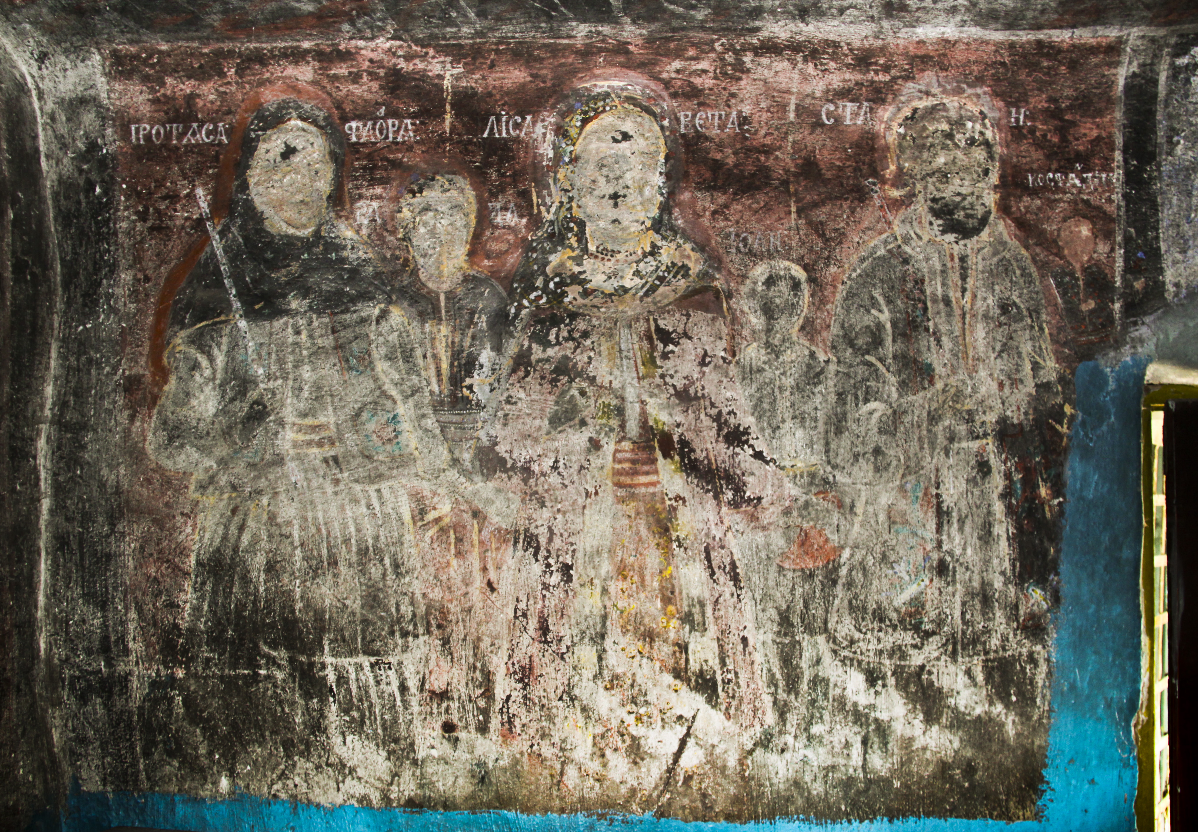 Urecheşti, Argeş county, Romania: the wooden church.